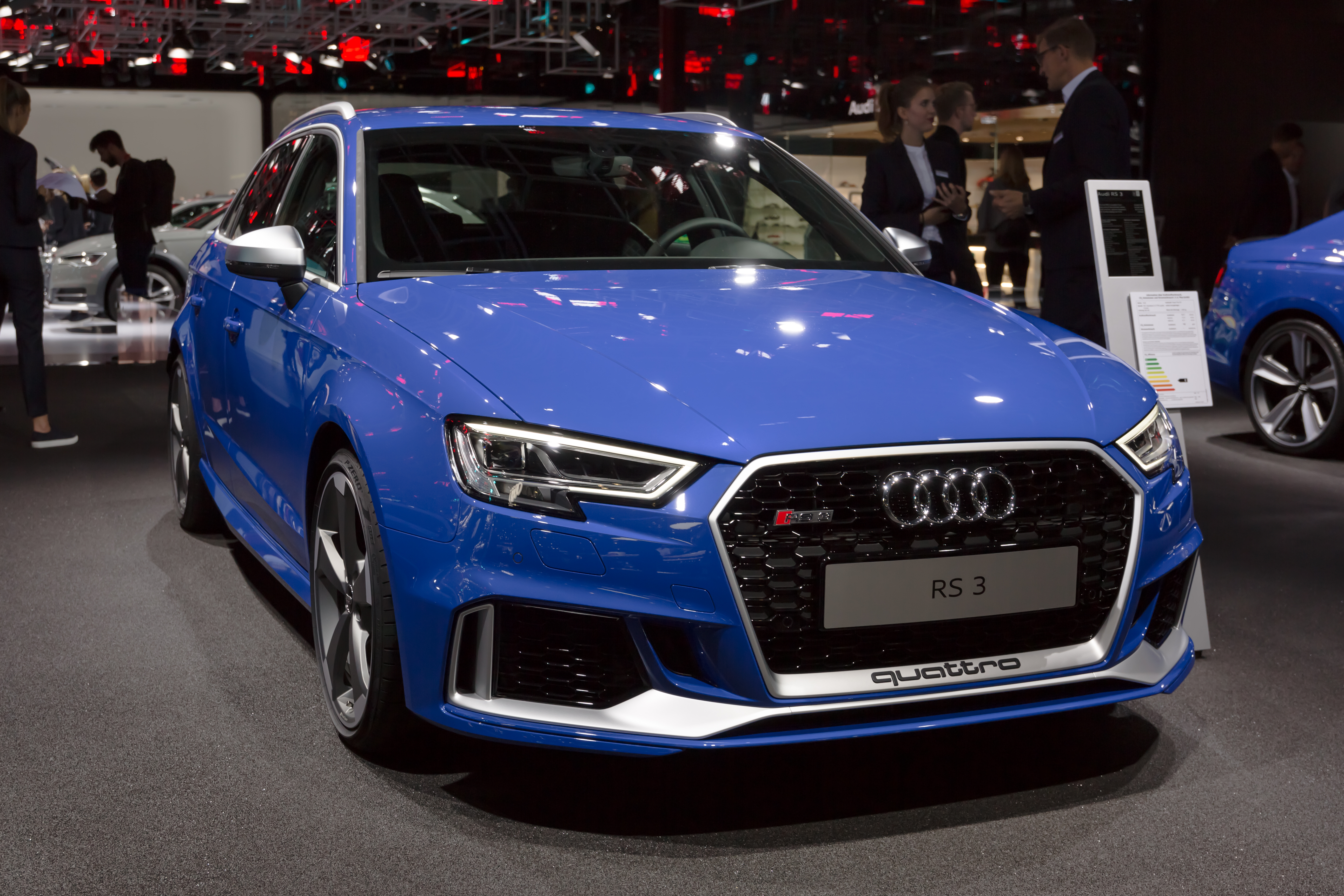 Audi RS3, IAA 2017